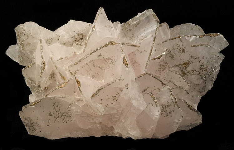 Pyrite, Calcite (Var.: Manganoan Calcite) Locality: Chenzhong (?), Hunan Province, China (Locality at ) Size: 12.9 x 6.8 x 4.4 cm. This find was made a couple of years back in China, and is absolutely unique: glittery, golden pyrite microcrystals on the edges of huge (to over 9 cm across) crystals of pink manganoan calcite. Some of the specimens had very sparse coverage of pyrite, just a salting, but here, it is richly carpeting the crystal edges. The largest crystal on this excellent cabinet piece is 4.7 cm.